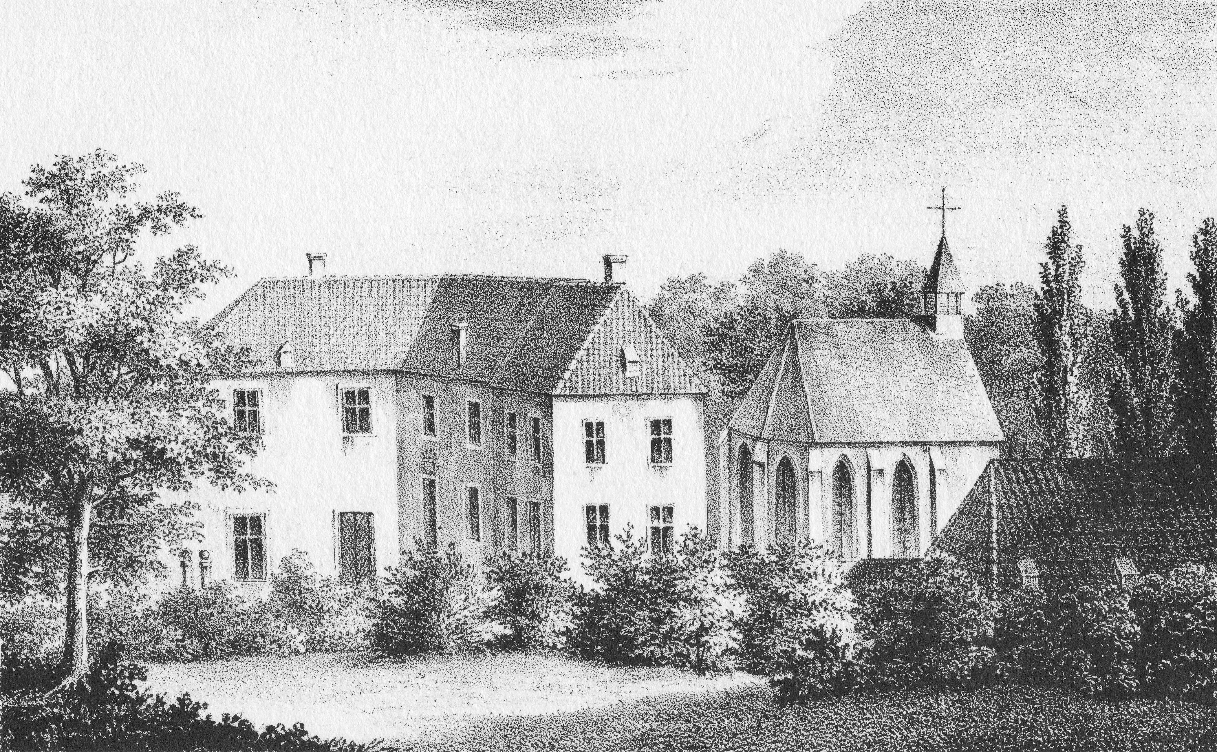 Haus Lüttinghof in Gelsenkirchen, north-western aspect, 19th century lithograph